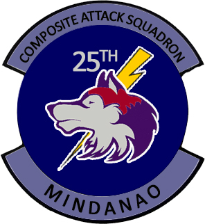 The Philippine Air Force 25th Composite Attack Squadron Unit Seal.